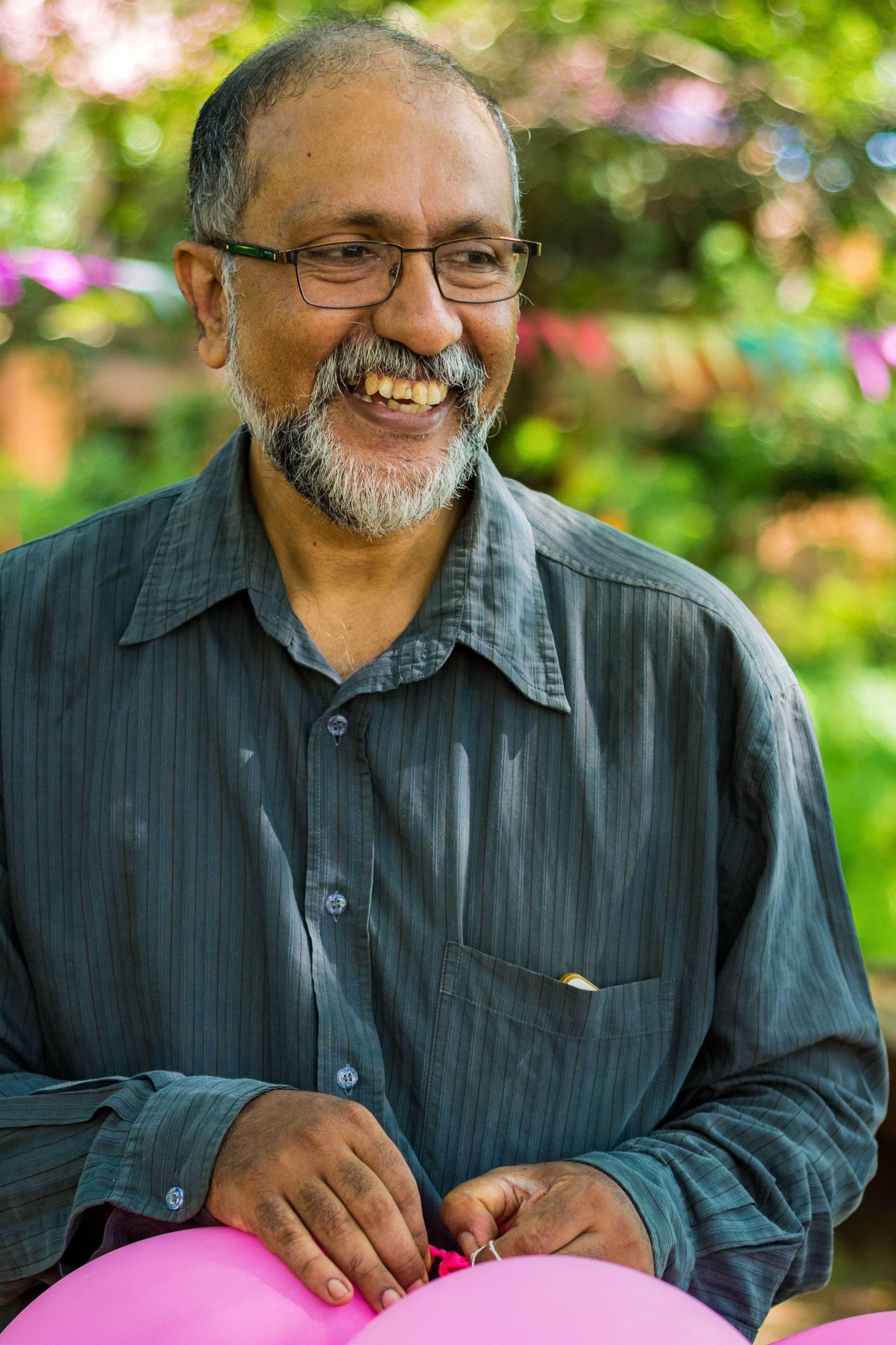 A photo of Goan journalist Frederick Noronha, taken at a Goa University event called Pure Poetry in 2017.